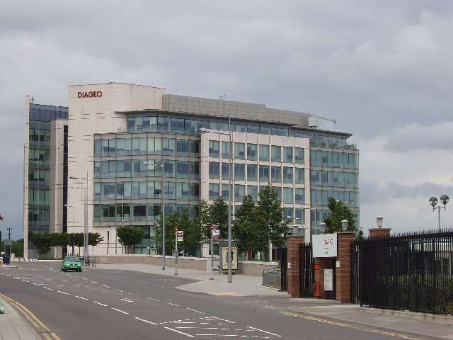 Diageo Offices in new development, Park Royal.